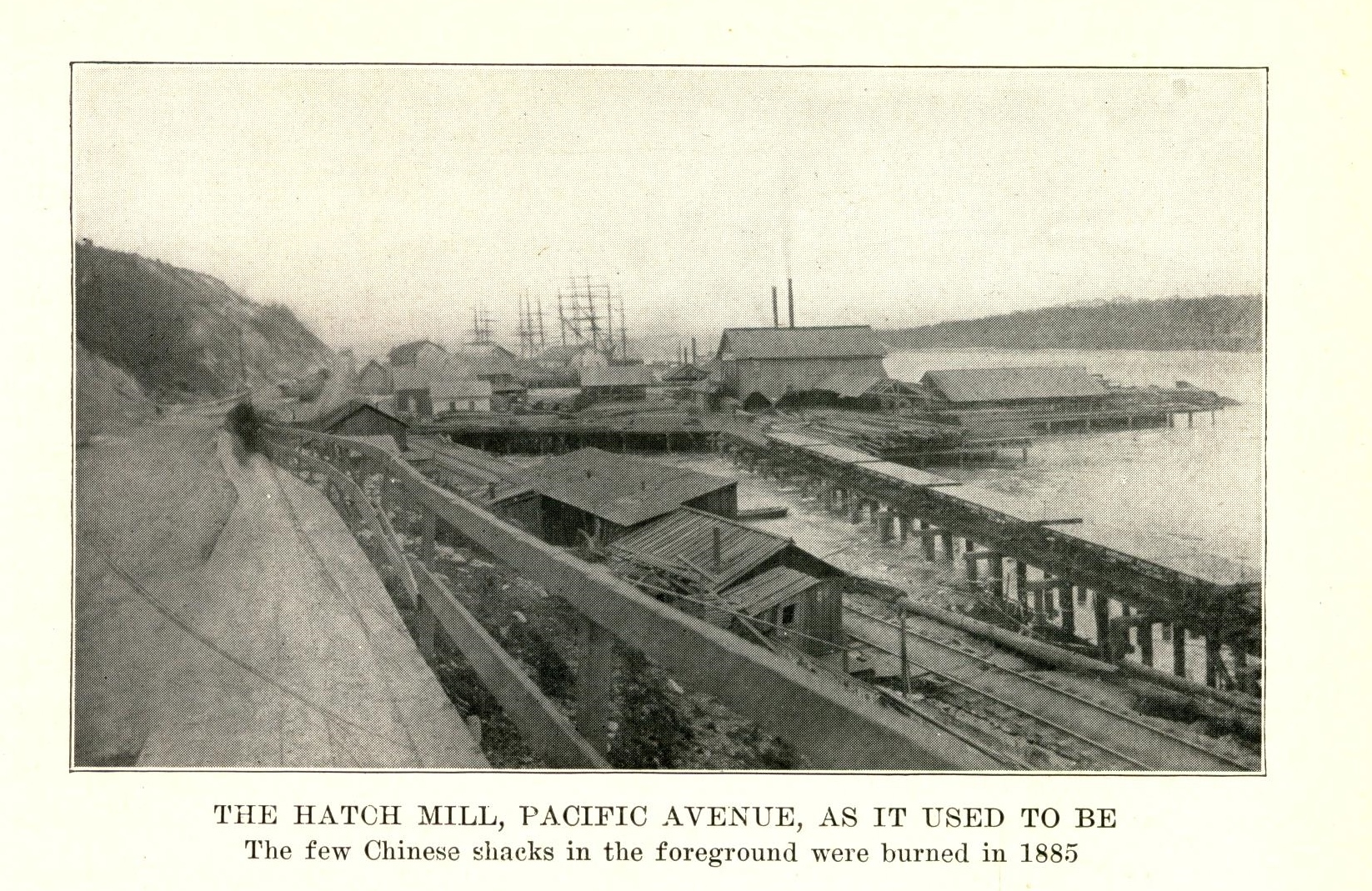 This is a photo of Pacific Ave. in Tacoma in 1885.